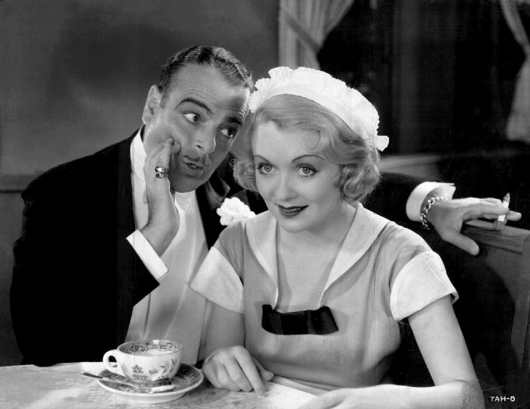 Promotional photograph for the film What Price Hollywood? starring Lowell Sherman and Constance Bennett